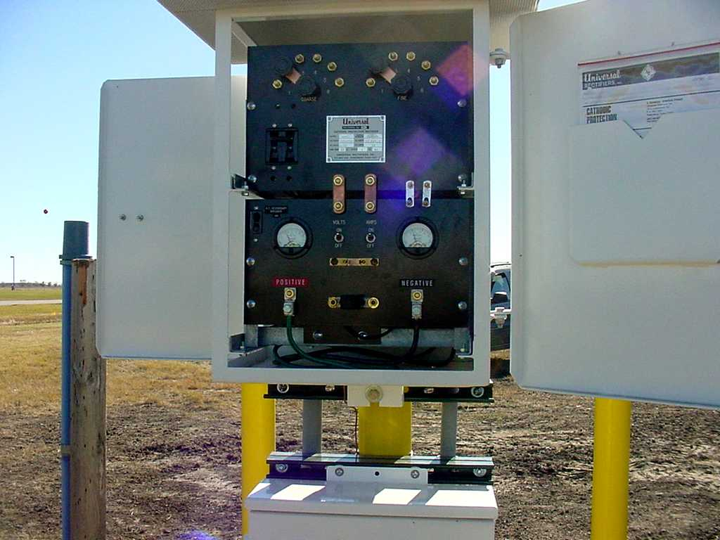 A Cathodic Protection Rectifier. All rights released by the photographer.